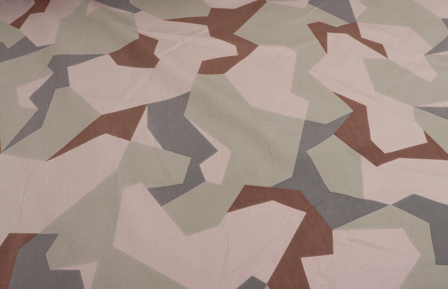 M90K Camouflage - By Arktis